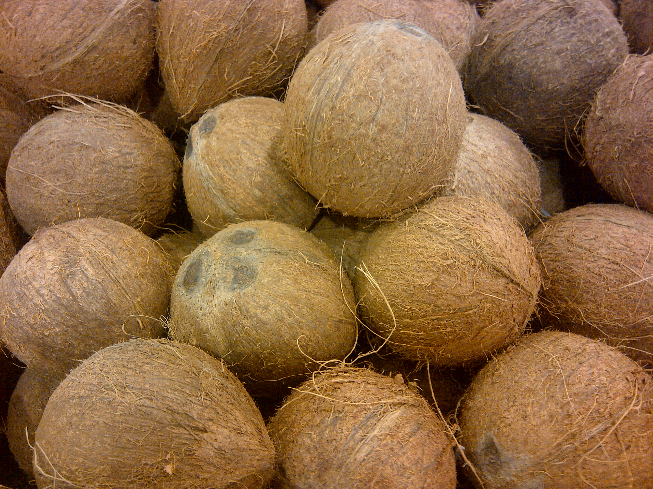 Coconut